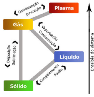 Transformação de sistemas